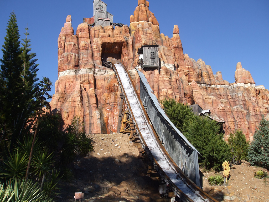 The Wild West Ride at Movie World on the Gold Coast. The final drop of the ride is shown.